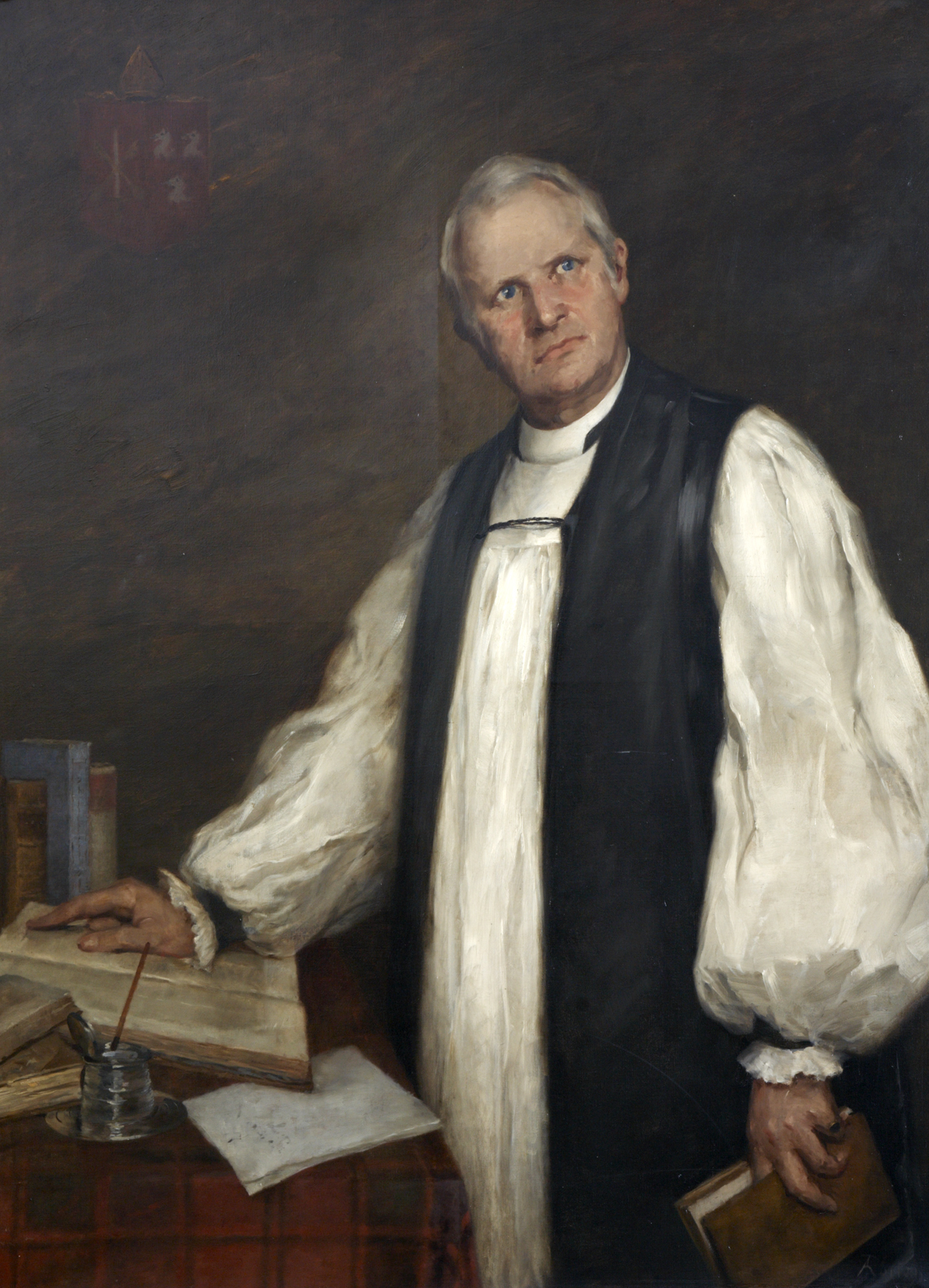 Archibald Robertson (1853–1931), Bishop of Exeter (1903–1916)